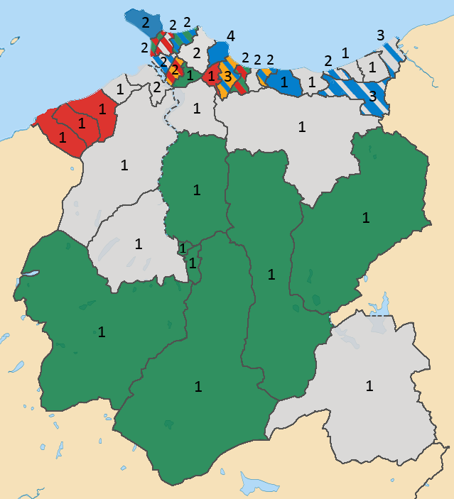 Results of the Conwy County Borough Council election, May 2017, indicating numbers of councillors and their party affiliations Colours: Conservative Plaid Cymru Labour Liberal Democrat Independent Striped wards have mixed representation.